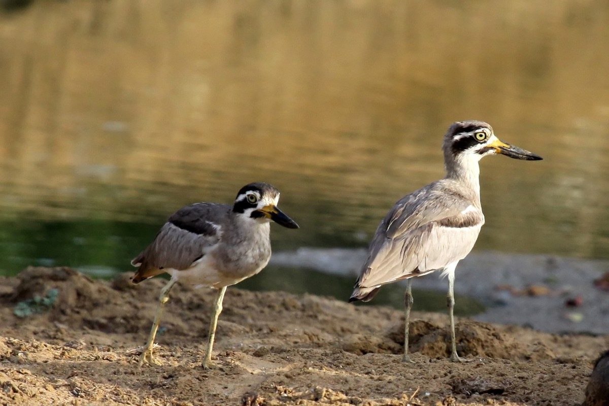 Great Stone-curlew, Yala National Park, Sri Lanka.